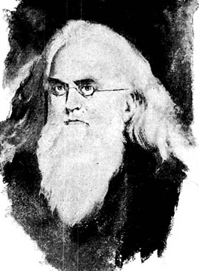 Sidney Breese (1800-1878), US Senator from Illinois